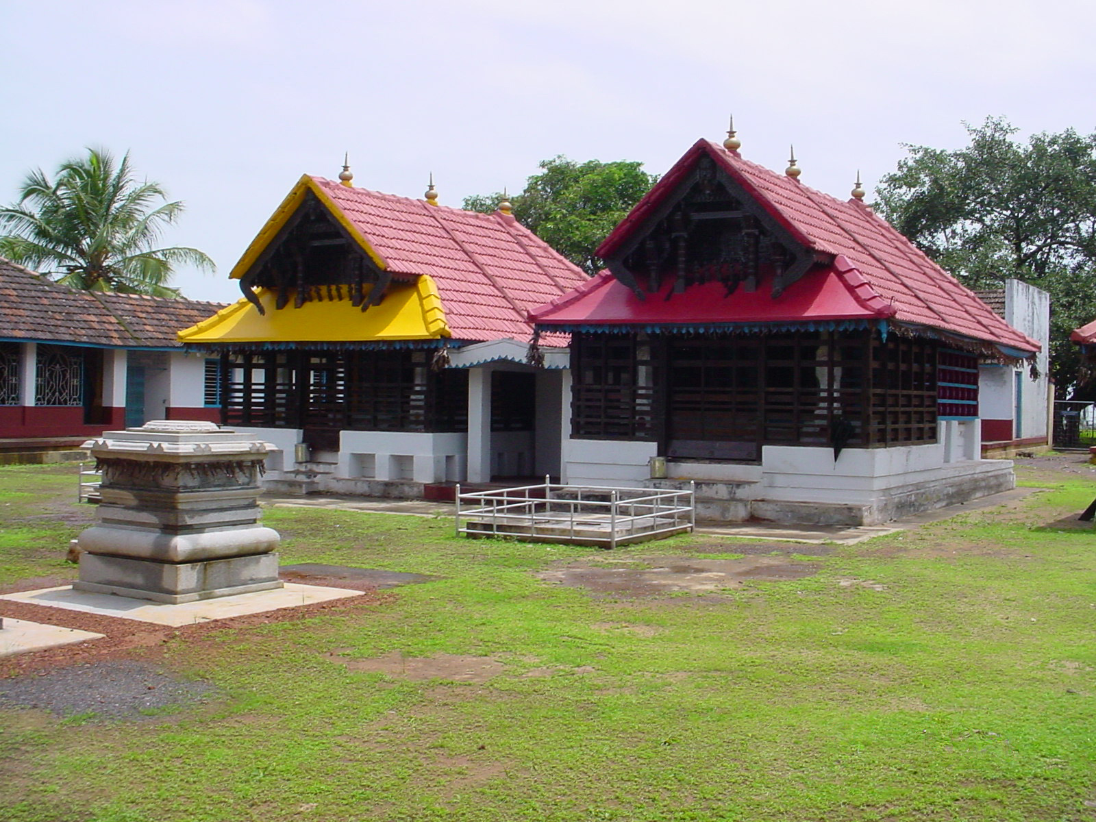 Picture taken by me.